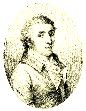 A fac-simile of a copper engraving depicting Portuguese painter Vieira Portuense (1765-1805).